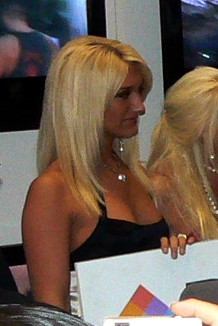 Brooke Hogan